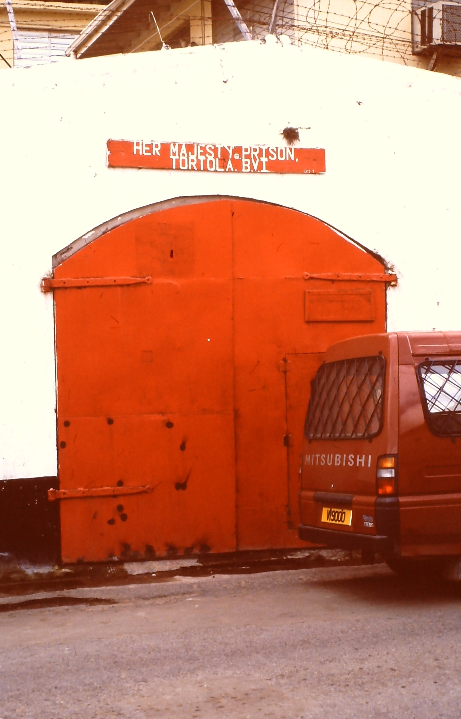 Her Majesty's Prison, Road Town, Tortola, British Virgin Islands